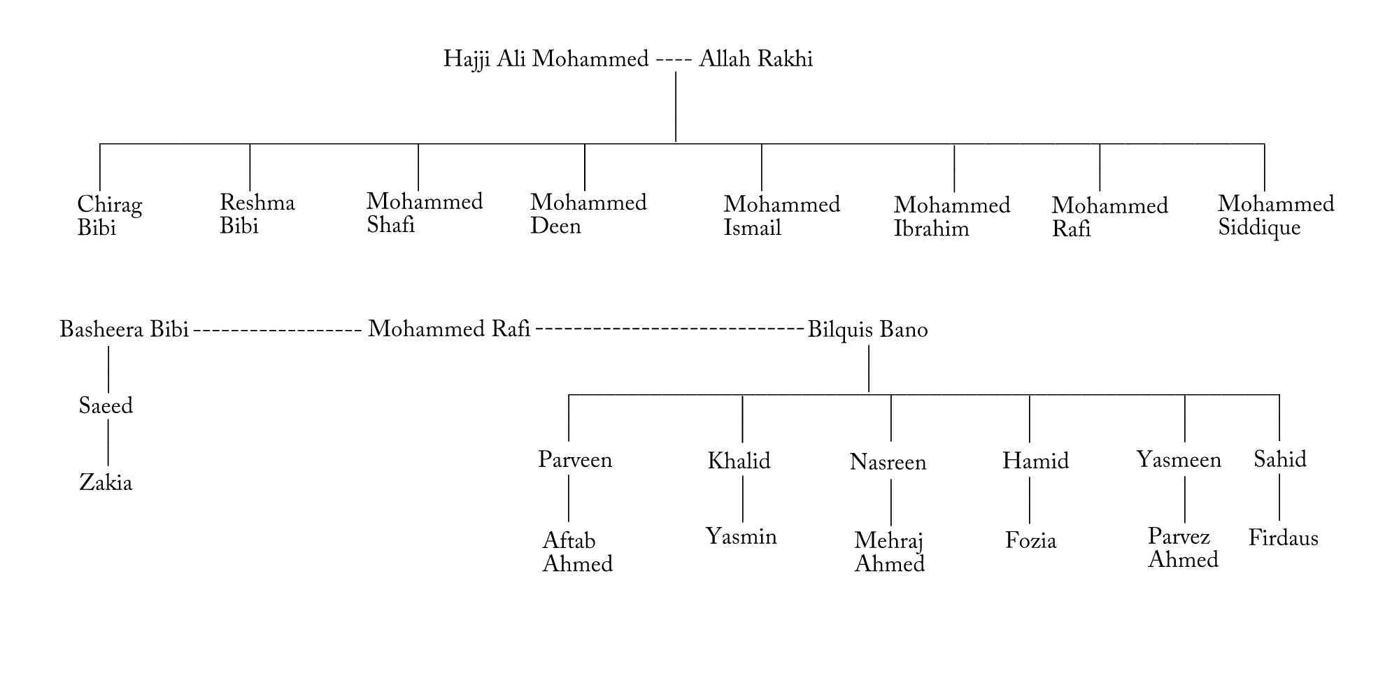 Bollywood singer, Mohammed Rafi's family tree.